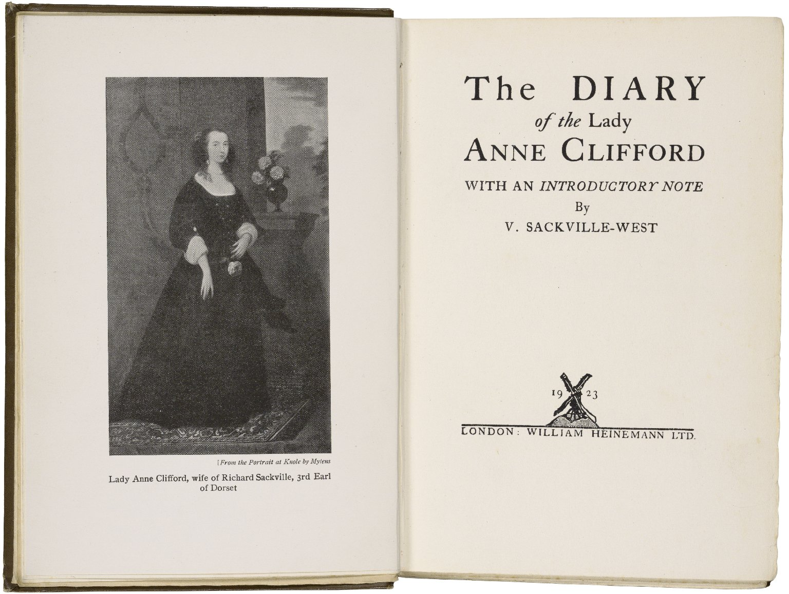 Title page of a 1923 edition of Lady Anne Clifford's diaries, with an introduction by Vita Sackville-West.